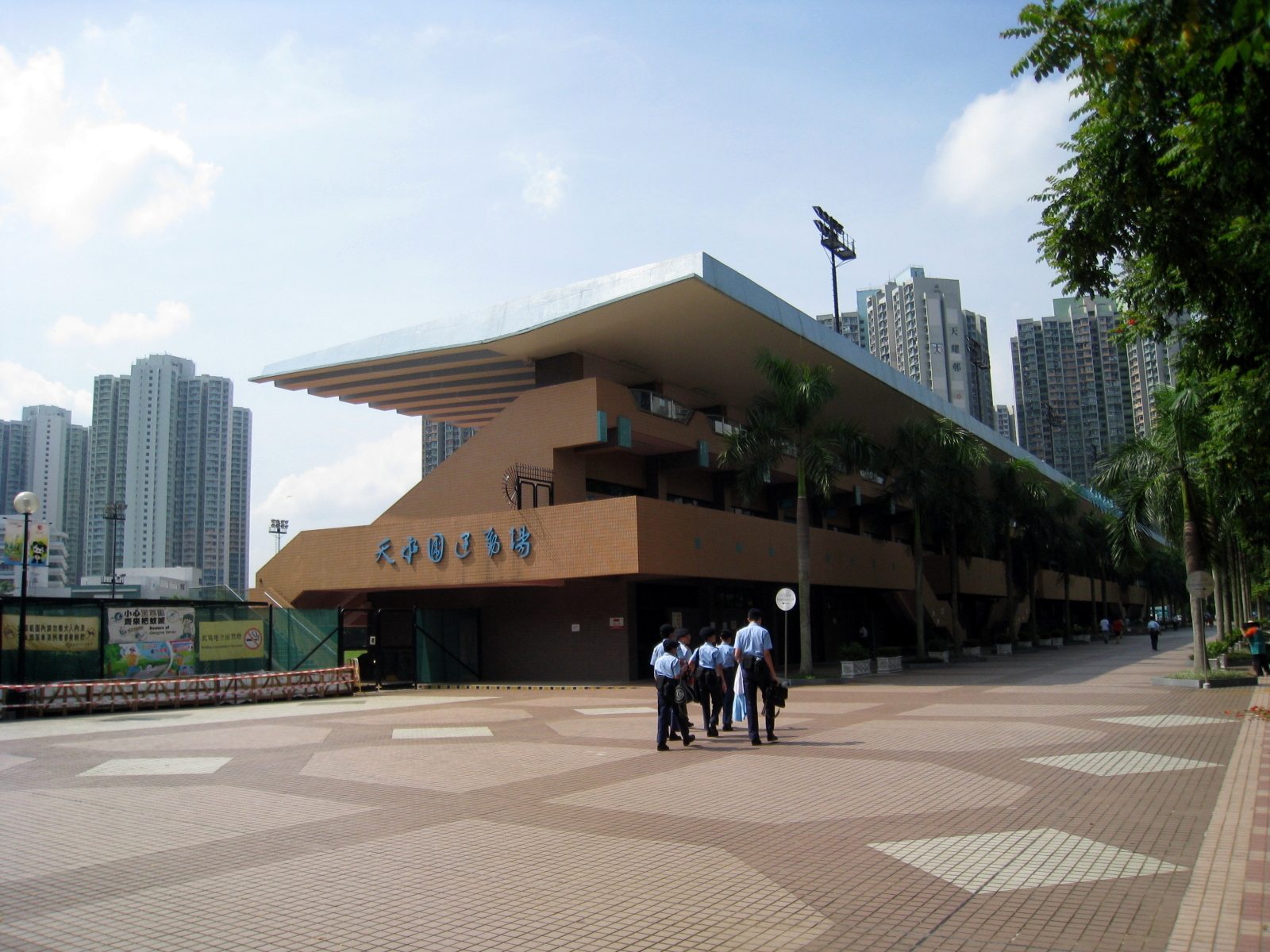 HK Tin Shui Wai Sports Ground 天水圍運動場